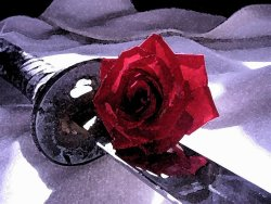 The image is taken, with the creators permission from